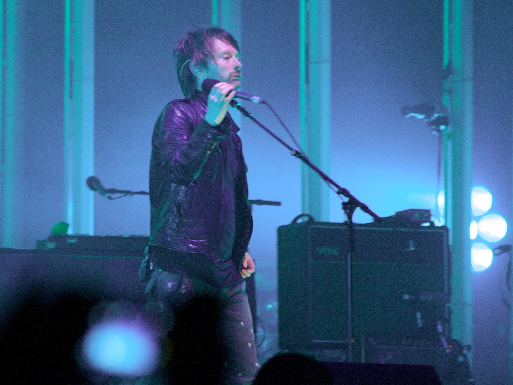 Thom Yorke performing "15 Step" with Radiohead at Just a Fest at Chácara do Jockey in São Paulo, Brazil